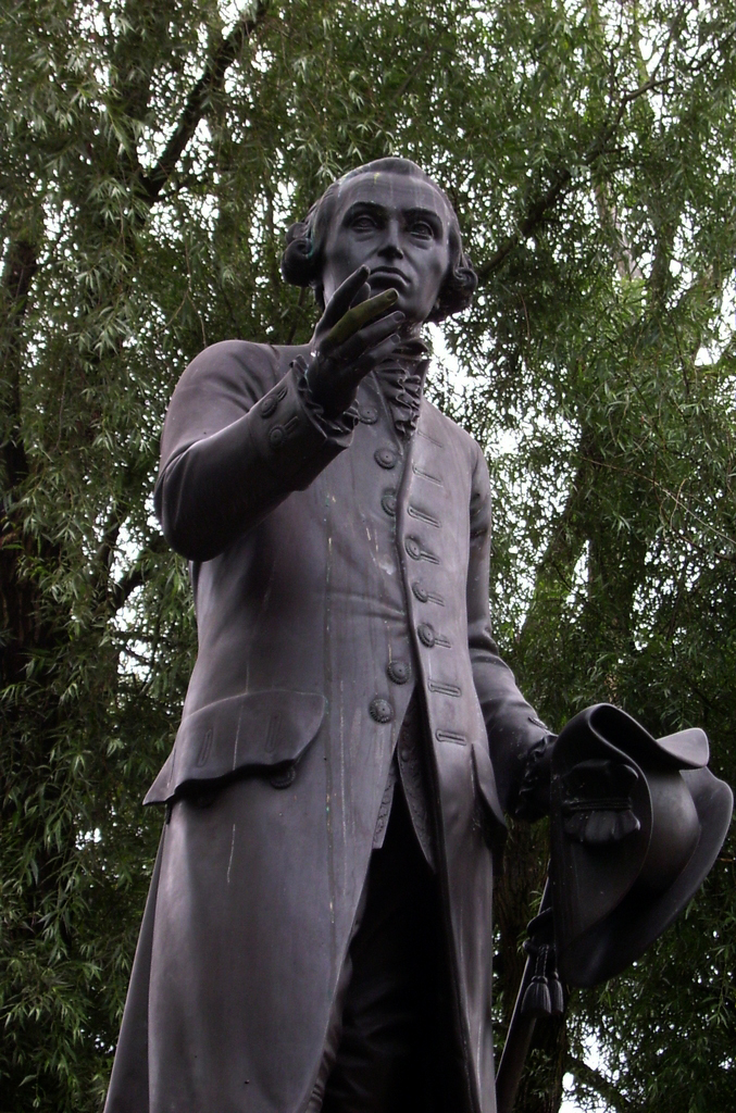 Statue of Immanuel Kant in Kaliningrad State University area, Kaliningrad, Russia. Replica by Harald Haacke of the original sculpture by Christian Daniel Rauch that disappeared in 1945 during the Second World War. Christian Daniel Rauch (1777–1857) Alternative names Christian Rauch; christian rauch; Rauch; christian daniel rauch; Chr. Rauch; Ch. D. Rauch; chr. rauchDescriptionGerman sculptorDate of birth/death 2 January 1777 3 December 1857 Location of birth/death Arolsen DresdenWork location Berlin Authority control : Q714972 VIAF: 39650543 ISNI: 0000 0001 1875 129X ULAN: 500028803 LCCN: n82059477 WGA: RAUCH, Christian Daniel WorldCat creator QS:P170,Q714972 Harald Haacke (1924–2004) Alternative names Harold HaackeDescriptionGerman sculptor and restorerDate of birth/death 27 January 1924 13 January 2004 Location of birth/death Wandlitz BerlinAuthority control : Q1584511 VIAF: 96516474 ULAN: 500111293 GND: 118699652 creator QS:P170,Q1584511